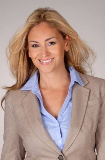 Dipl.-Päd. Miriam Hoff née Ruppert, Psychotherapist